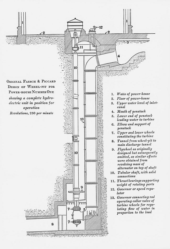 Original Faesch and Piccard design of wheel pit for power house number one - Edward D. Adams Station Power Plant, Niagara River & Buffalo Avenue, Niagara Falls, Niagara County, NY.